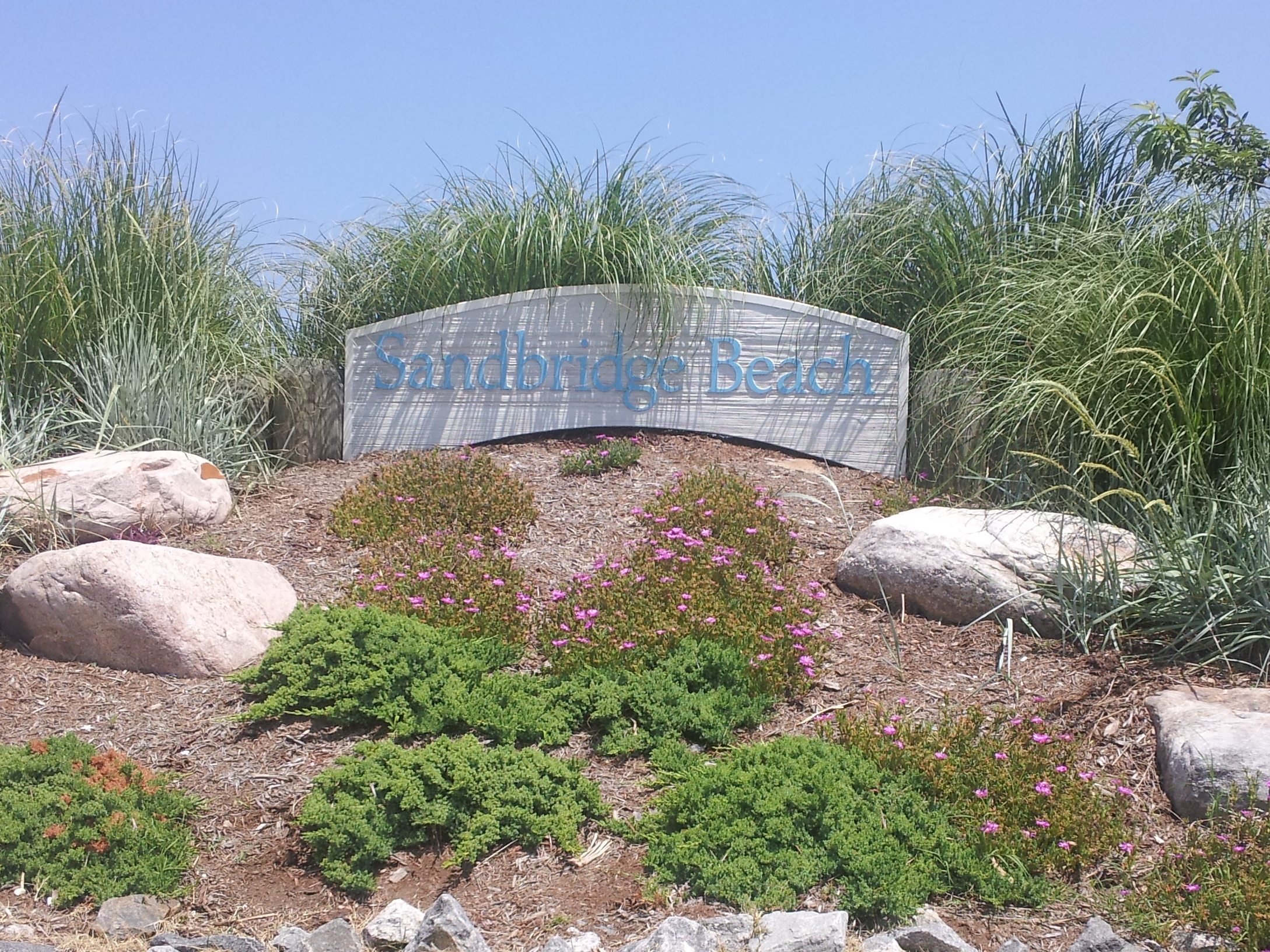 Entrance to Sandbridge Beach via Sandbridge Road